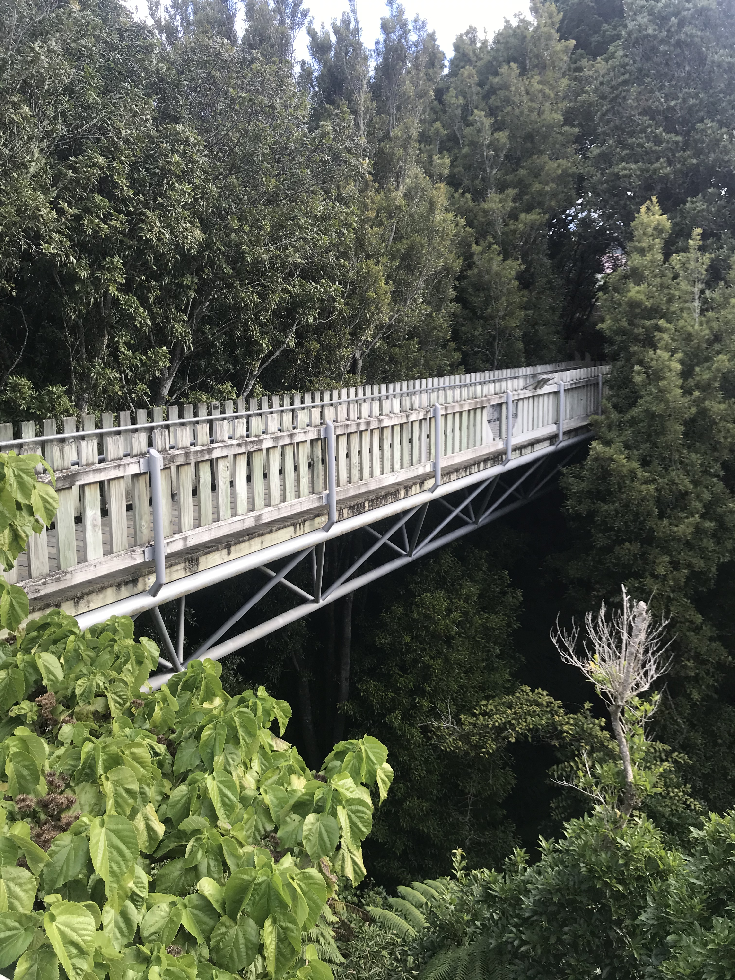 Elevated walkway in the treetops above a gully, in Otari-Wilton's Bush, Wellington, New Zealand